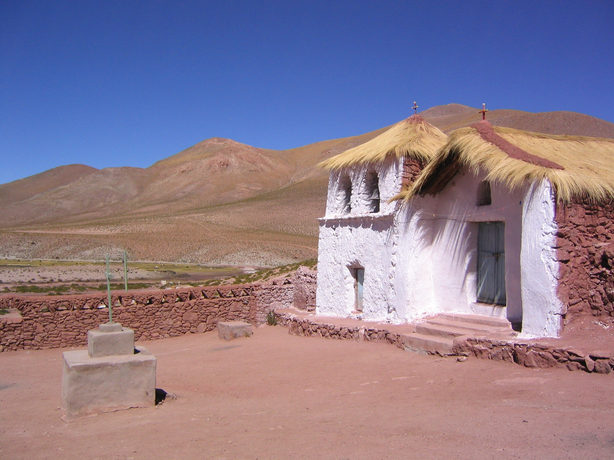 Small church in tiny village of Machuca, between the El Tatio geysers and San Pedro de Atacama desert, in Northern Chile.